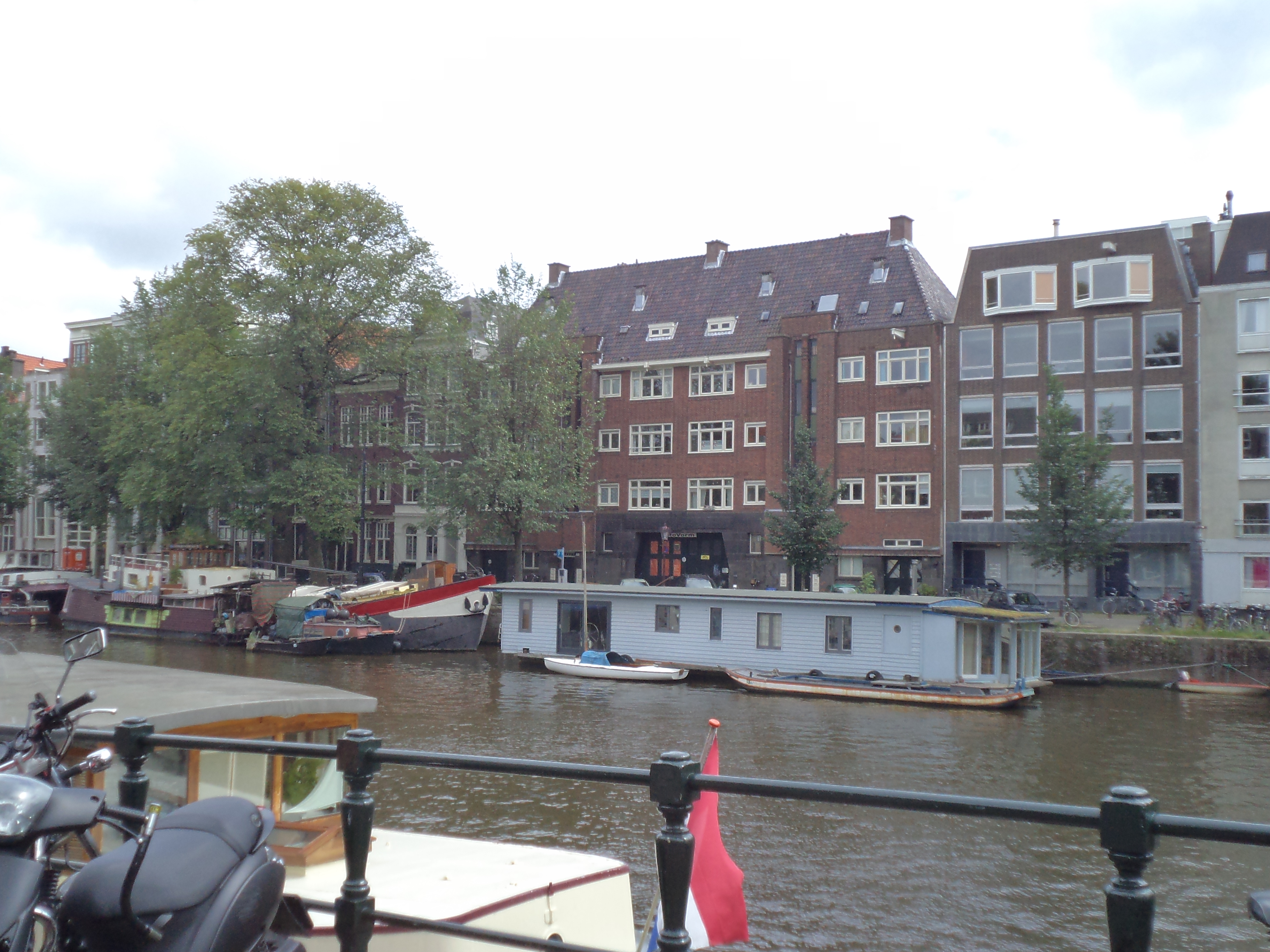 Blok arbeiderswoningen uit 1926, onderdeel van een complex dat doorloopt tot de Nieuwe Uilenburgerstraat, van 1926 tot 1942 in beheer bij Handwerkers Vriendenkring. Architect J.H. Mulder